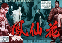 Movie poster for 1956 Korean movie Touch-Me-Not (봉선화 - Bongseonhwa).